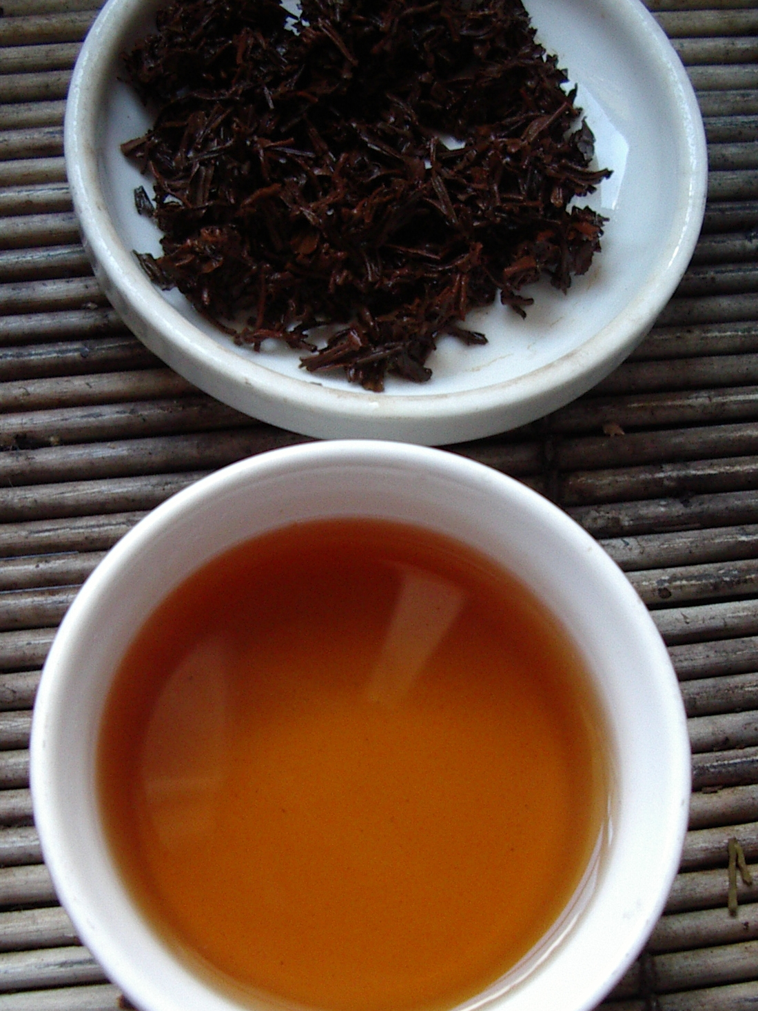 infusion and leaves of Keemun tea